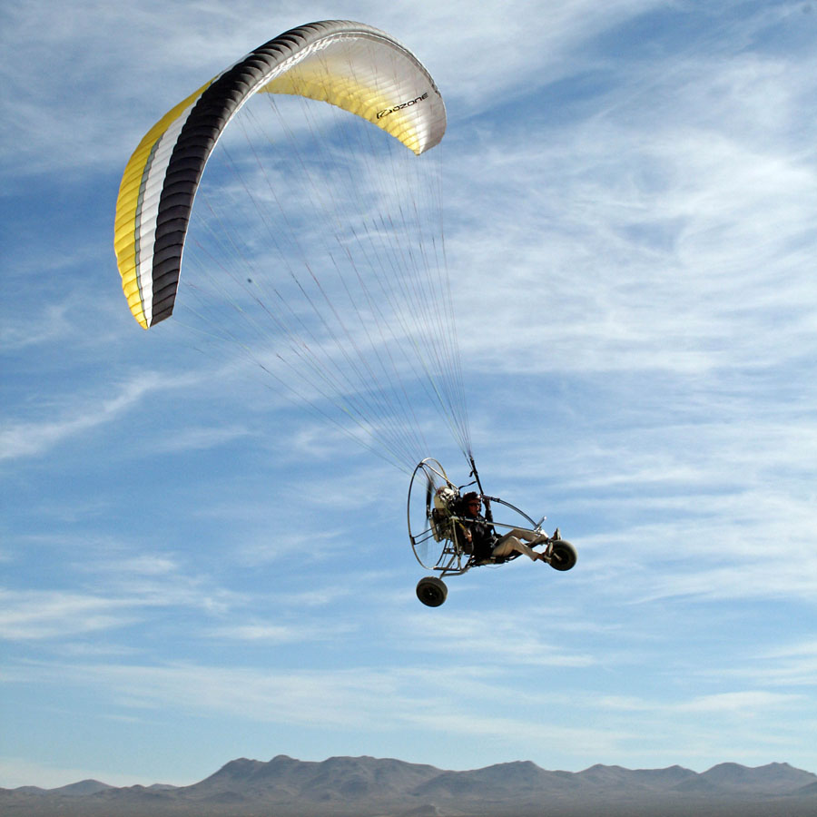 TrikeBuggy Microlight Aircraft